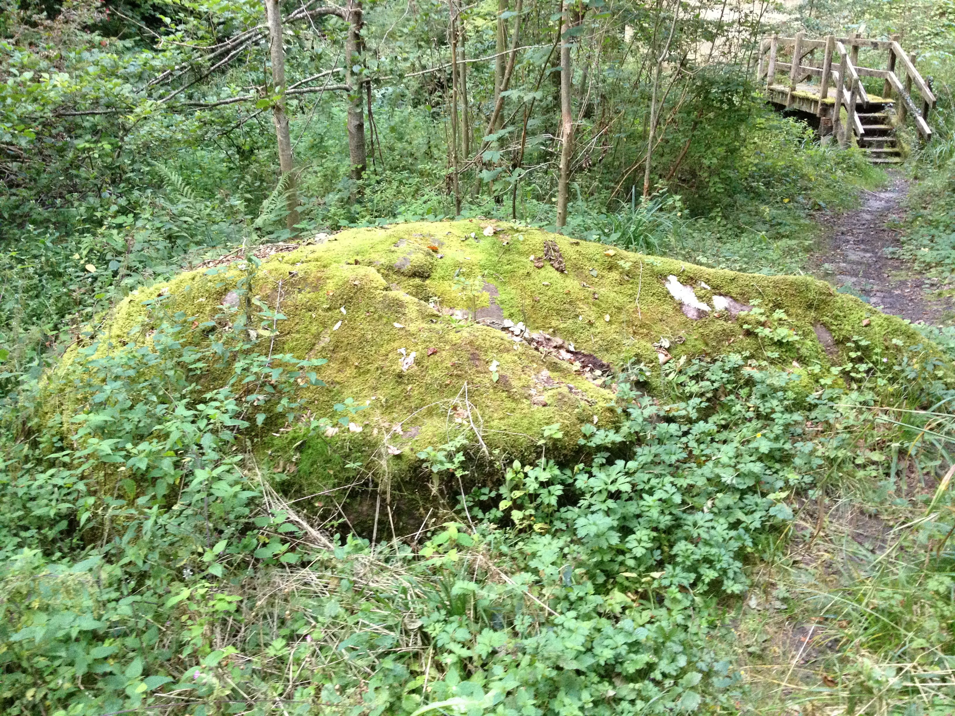 Megalithic stone in St-Cierges (CH) near the place called "La Mélulaz".